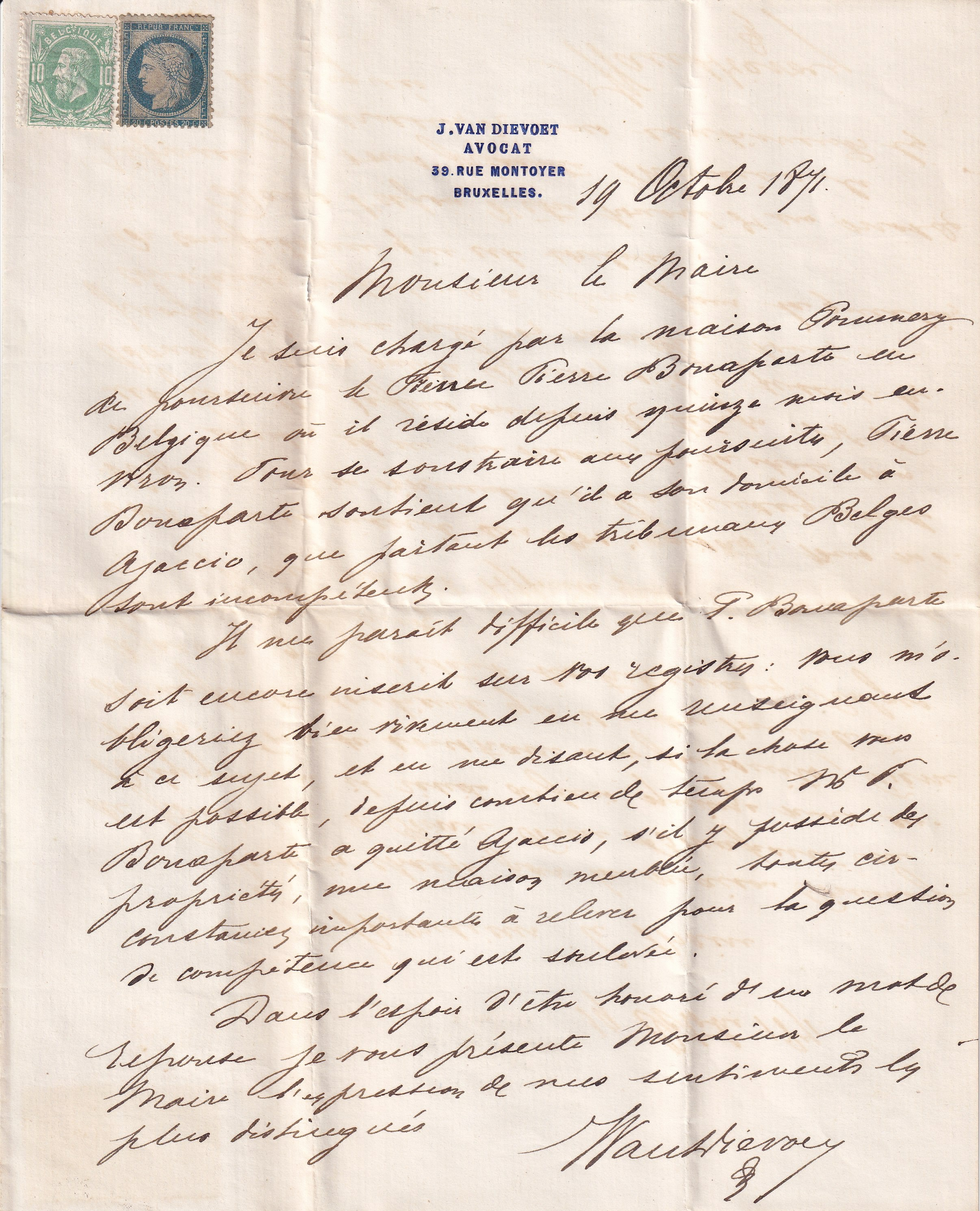 Letter from the law firm of Jules van Dievoet to the Mayor of Ajaccio (Joseph Fil) regarding the Prince Pierre Bonaparte whom he was asked to prosecute (letter written and signed by a secretary)